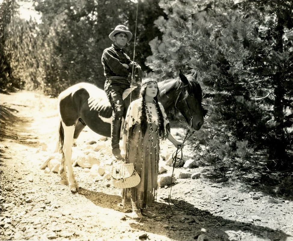 Frank Lanning and Louise Glaum in The Goddess of Lost Lake (1918) - publicity still